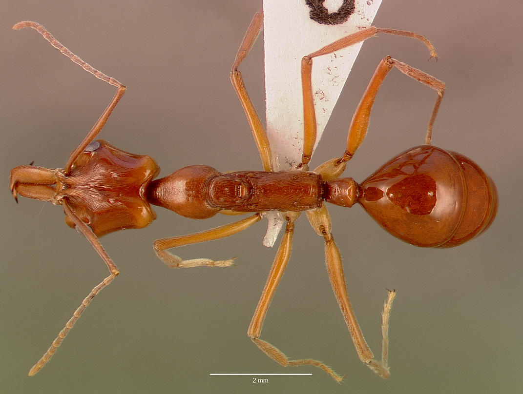 Dorsal view of ant Anochetus faurei specimen sam-hym-c005349a.